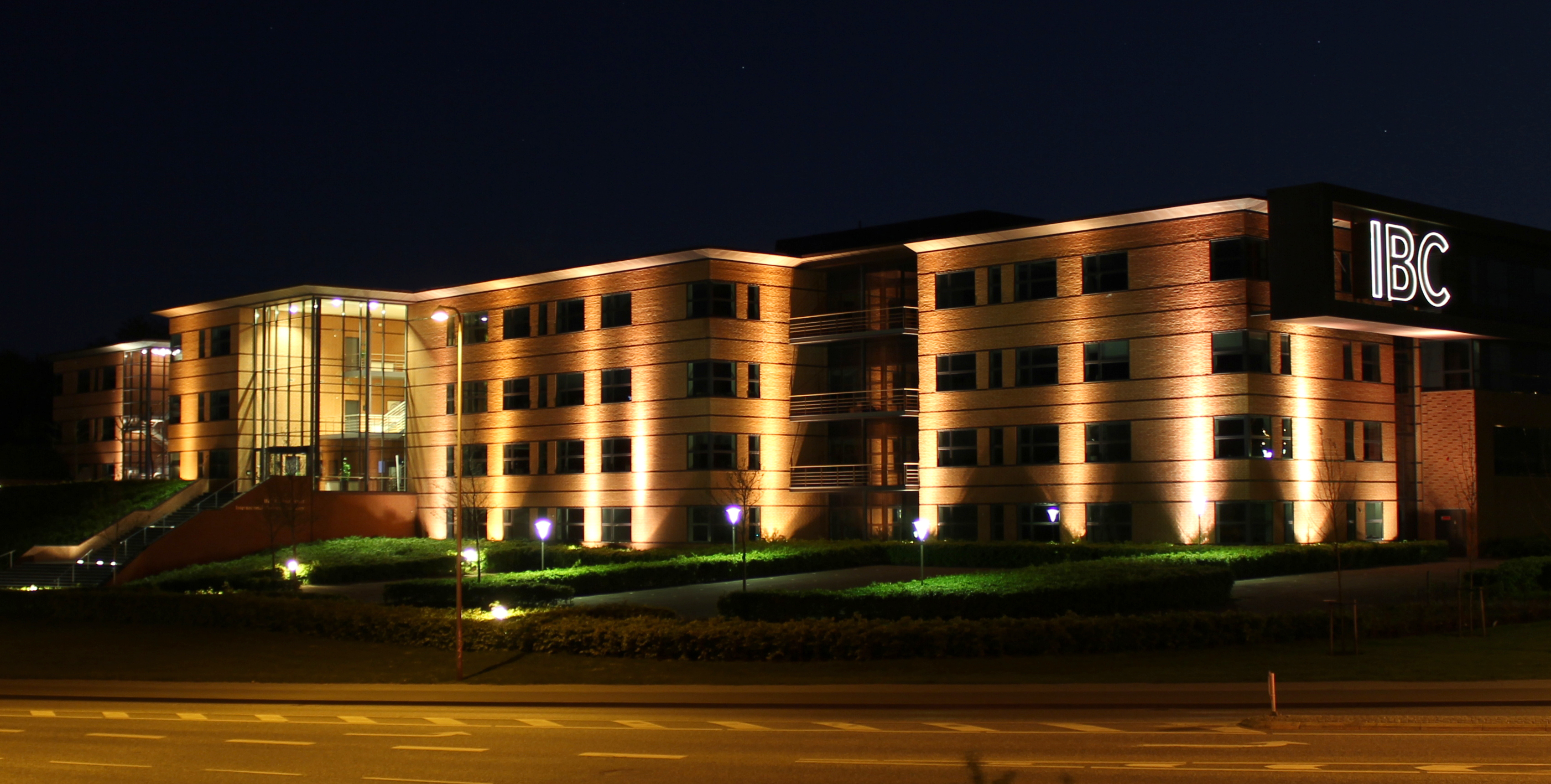 International Business College (IBC) is Denmark's fourth-largest business school located at the corner of Tvedvej, Osterbrogade and Skamlingvejen in Kolding.IBC Kolding is the old Kolding Business School but a merger between Kolding Business School, Fredericia-Middelfart College and being in 2002 to IBC. The four-winged building spreads over more than 20,000 square meters and offers daily approximately 180 permanent employees and around 2,000 students per year.